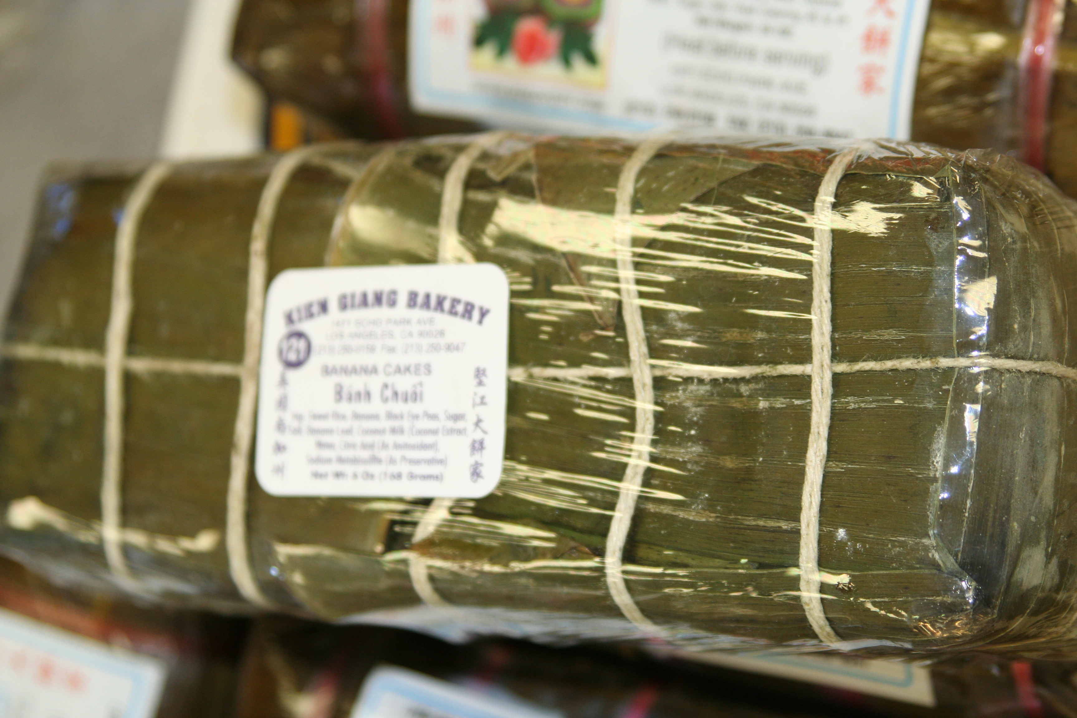 Bánh chuối (banana cake) from a Los Angeles, California bakery and sold at a Los Angeles market in 2009 as part of Tết holiday.